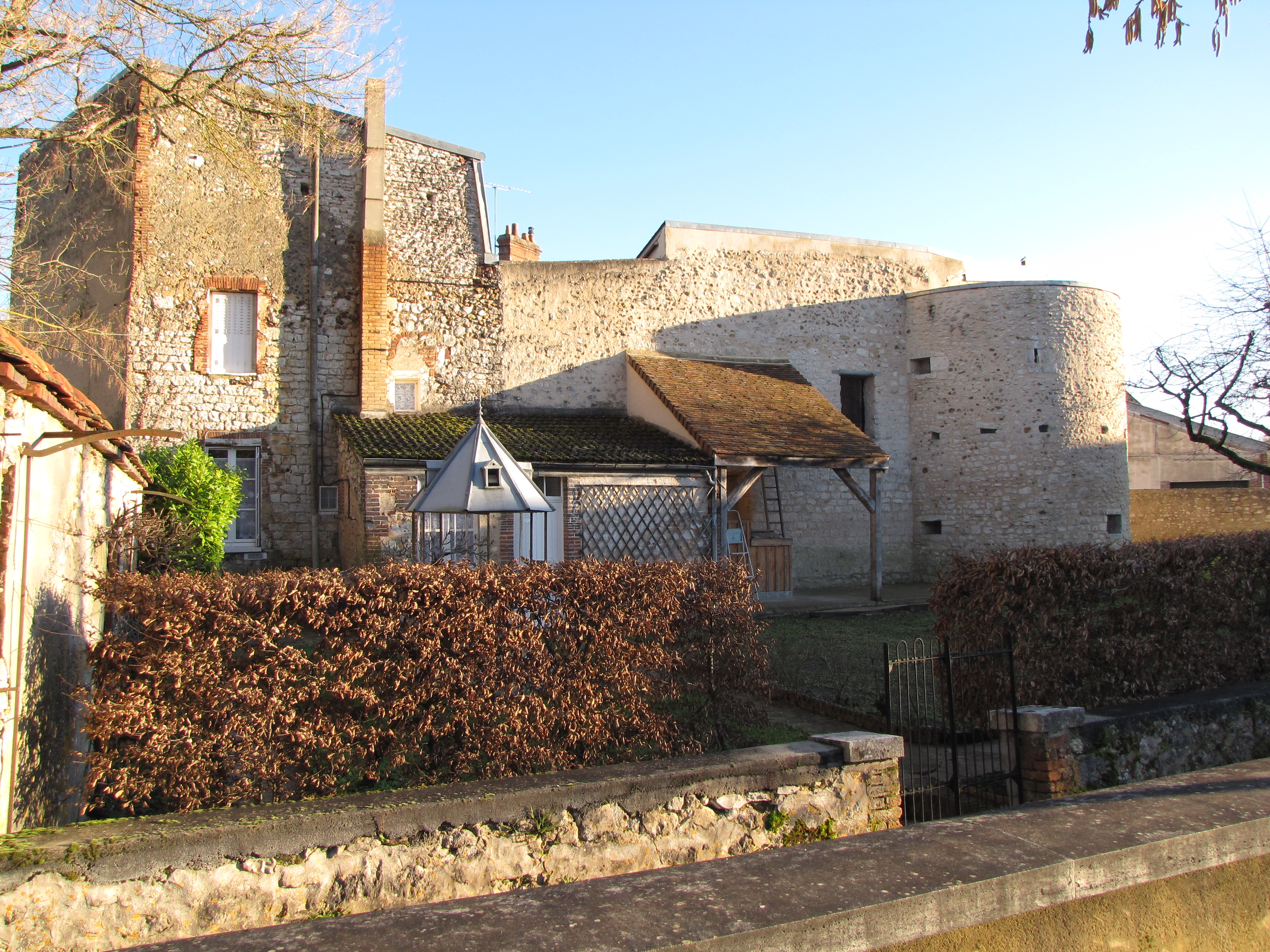 Châtillon-Coligny, Loiret, Centre region, France. A house built using the old town fortifications.